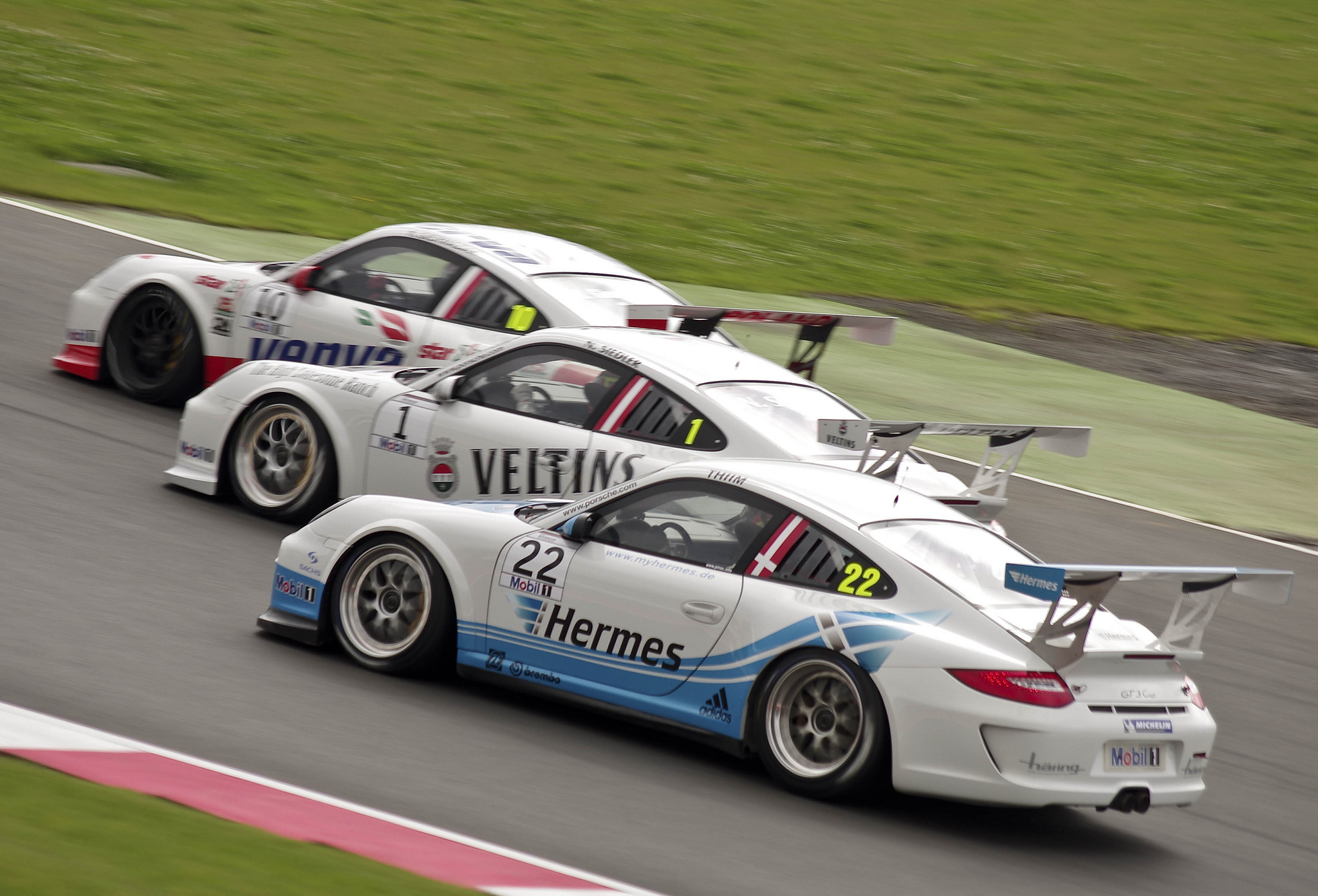 Date Taken:- 08/07/12 Image Shows:- Polish driver Kuba Giermaziak of Verva Racing Team, Austrian driver Norbert Siedler of the Veltins Lechner Racing team and Danish rookie driver Nicki Thim of Hermes Attempto Racing all go three abreast into the Village corner during the Porsche Mobil1 Supercup race, a pre event to the 2012 Formula One (F1) Santander British Grand Prix.